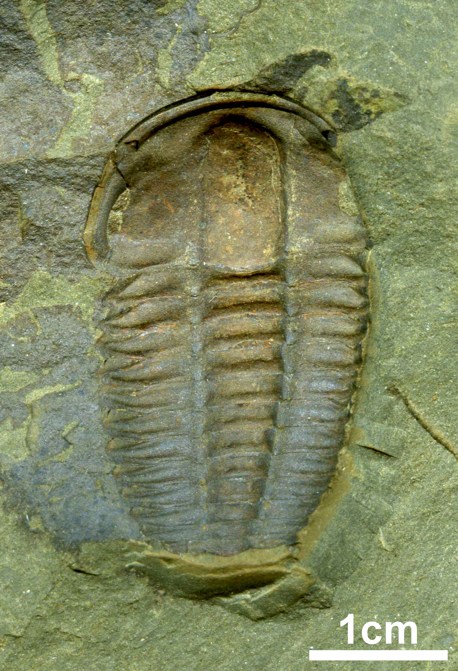 Middle Cambrian trilobite Ellipsocephalus hoffi; Jince (Czech Republic)